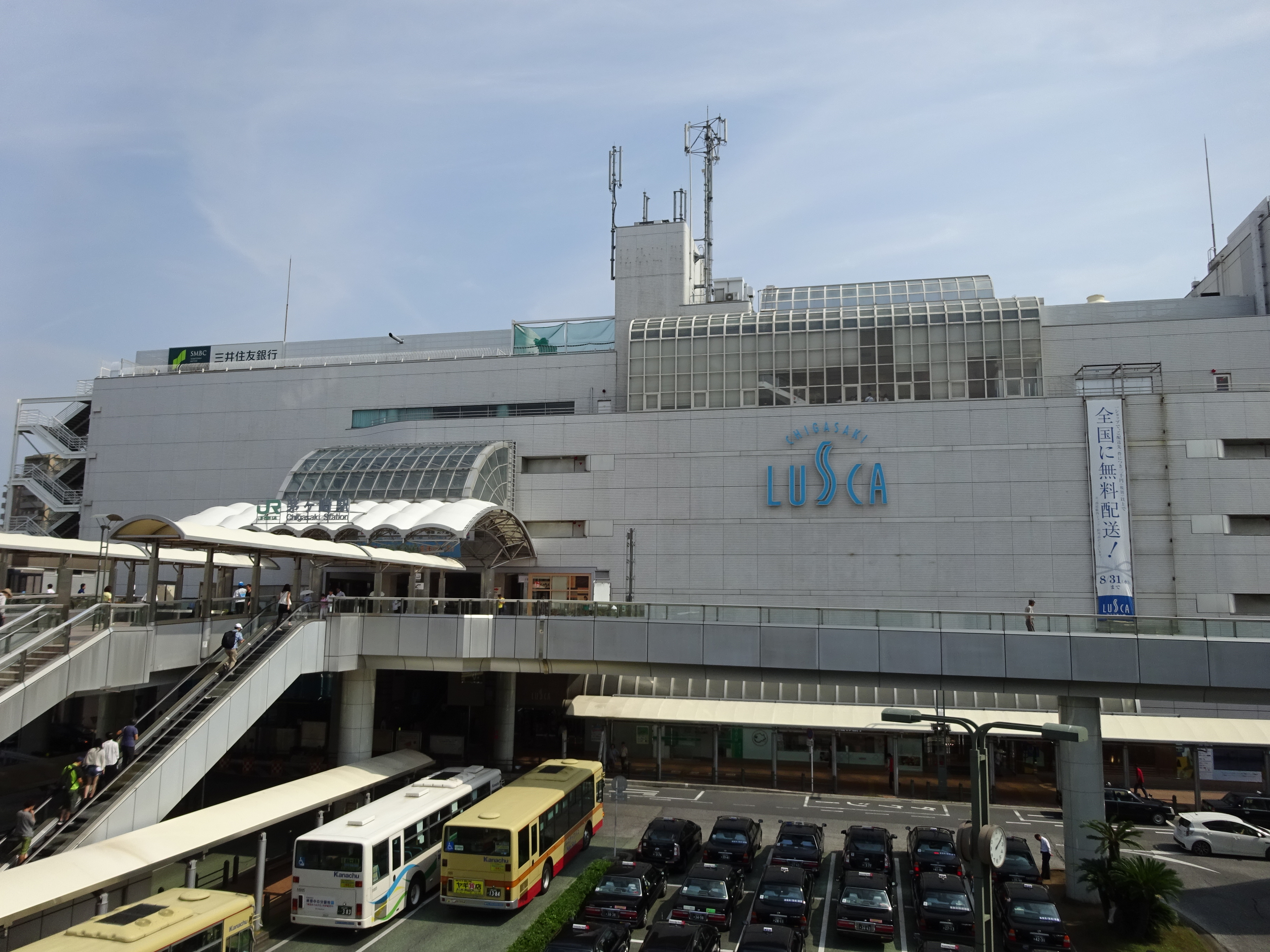 North Entrance of Chigasaki Station